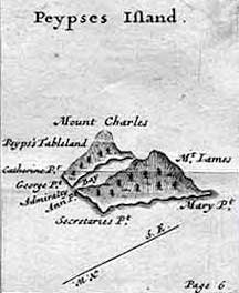 Pepys island, a mythical island described by William Ambrosia Cowley in 1684